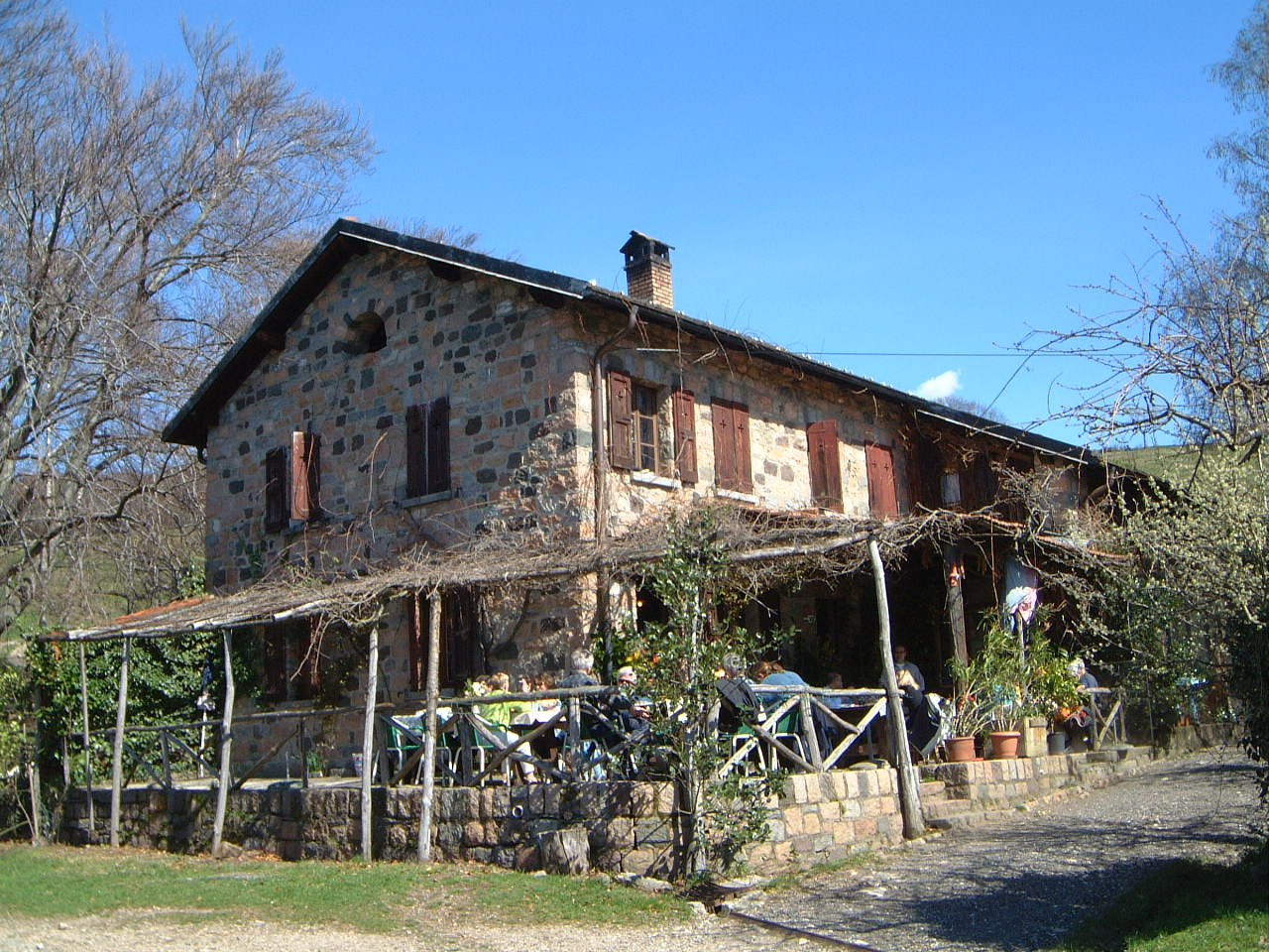 A beautiful place not far from Lugano where I lived for 35 years. Located in Alpe Vicania, Vico Morcote municipality, Ticino, Switzerland